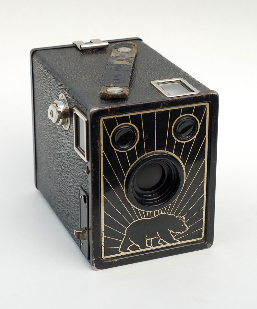 Box camera made by Ansco for the Bear Photo Co. of California. 1928-30.